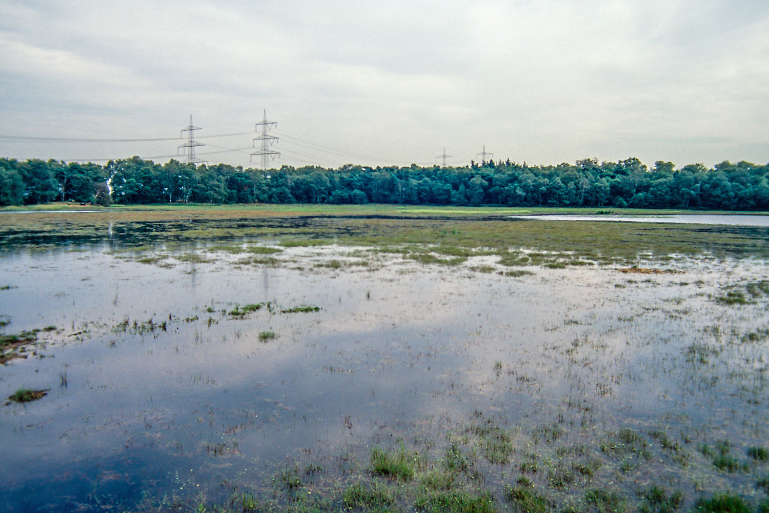 Pool and nature reserve "Ahlder Pool" near Schüttorf, district Emsland, south-western Lower Saxony, Germany.